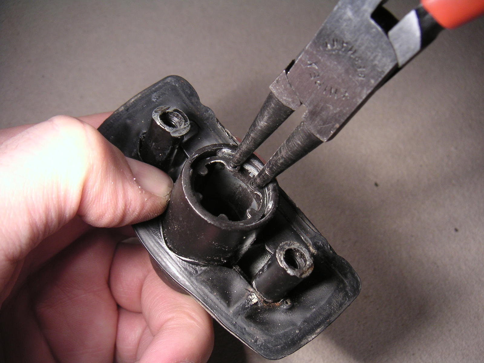 Placing an internal circlip into a shaft bearing.